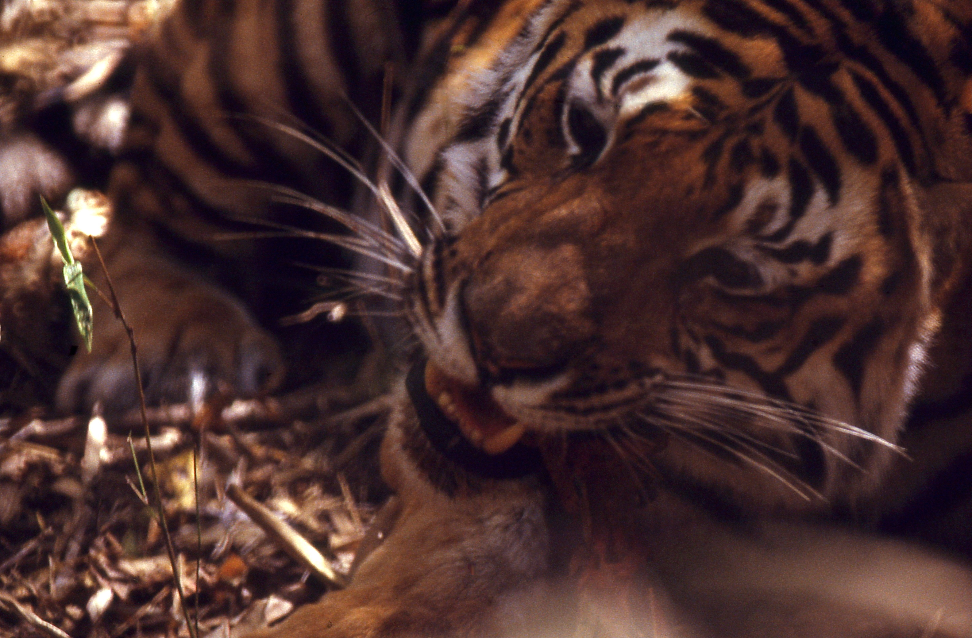 Kanha NP, Madhya Pradesh, India. Scanned Slide from March 1991.